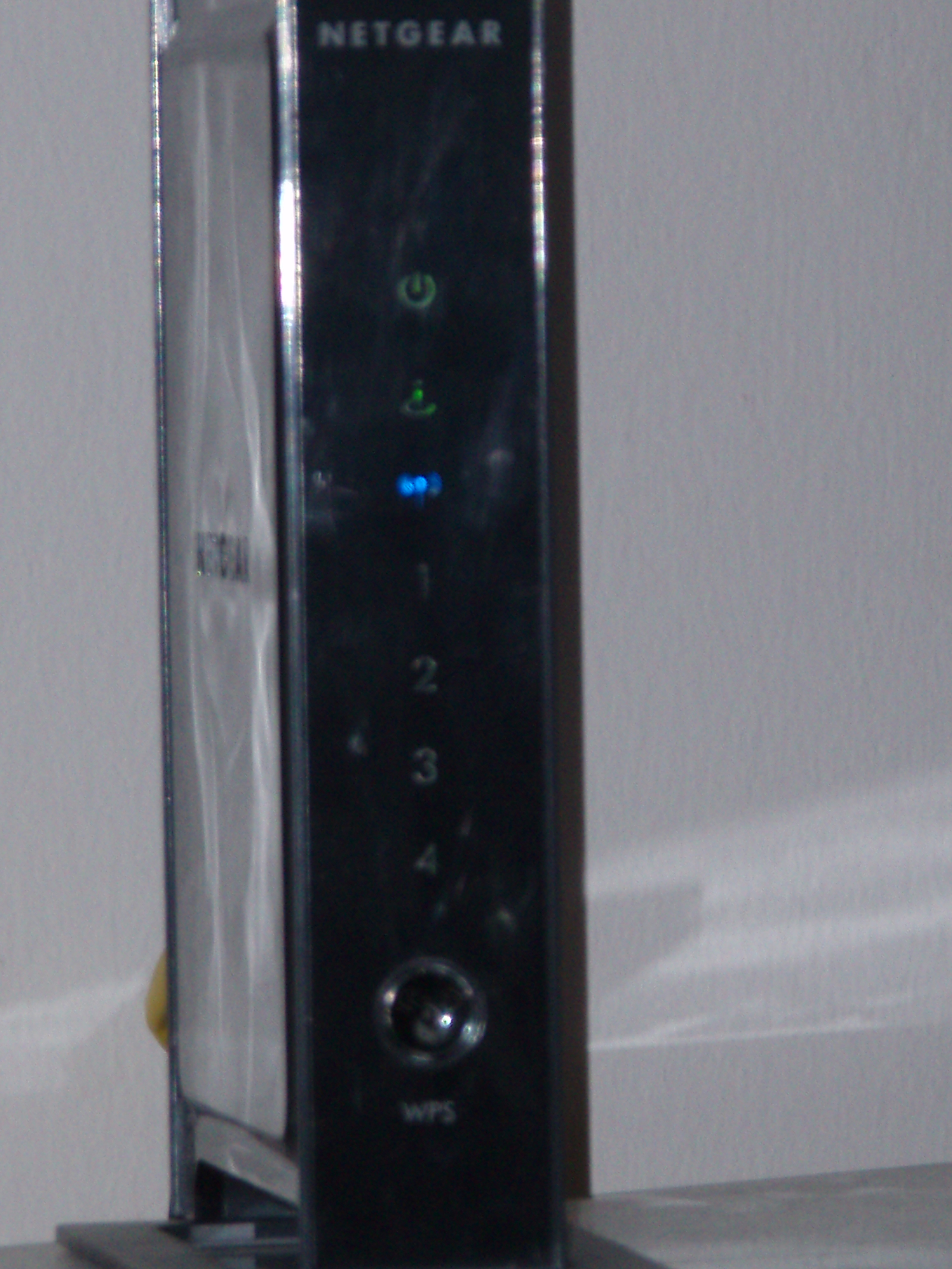 netgear 3500L